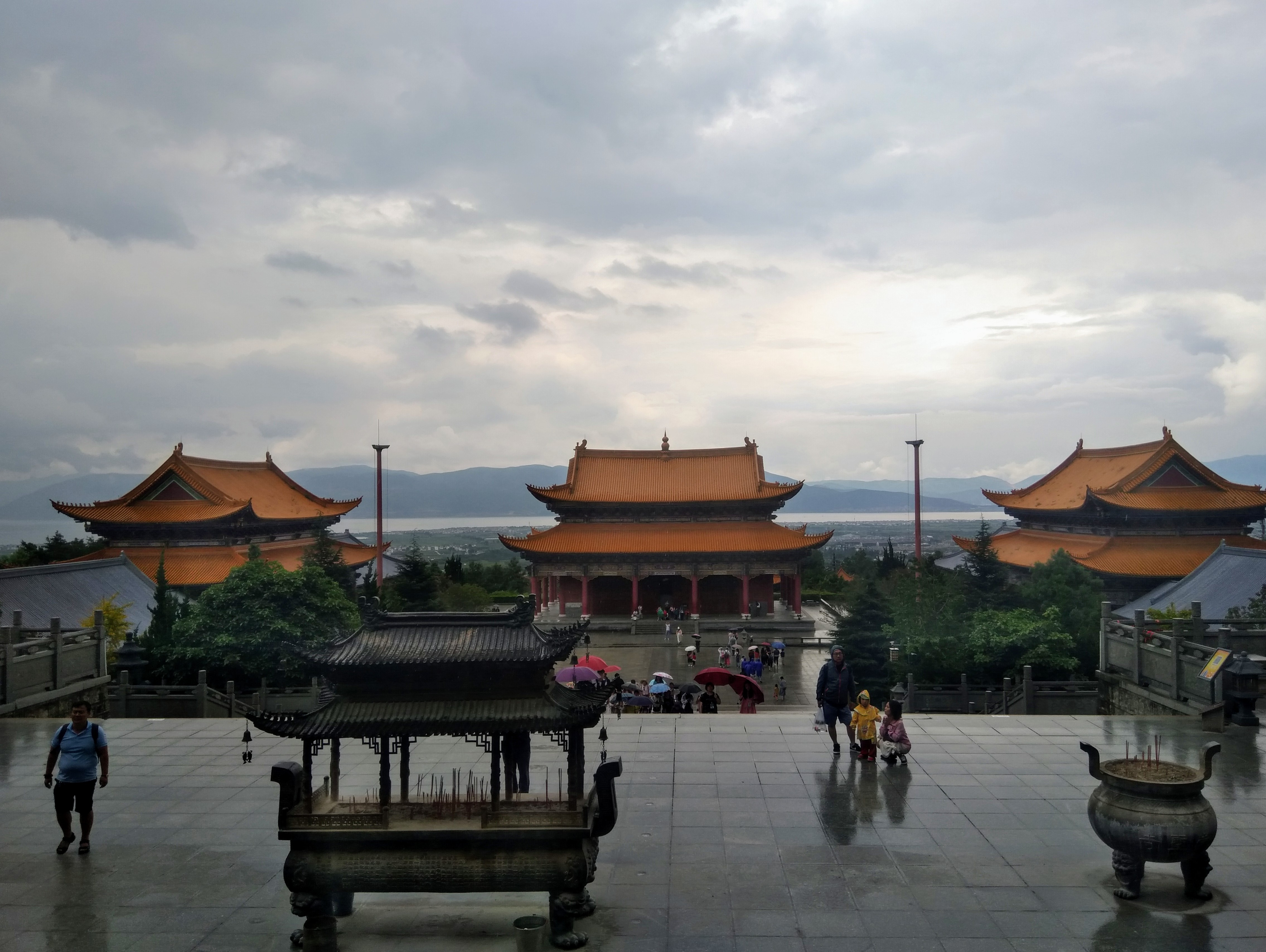 A view of parts of the Chong Shen Monastery from Daxiong Hall